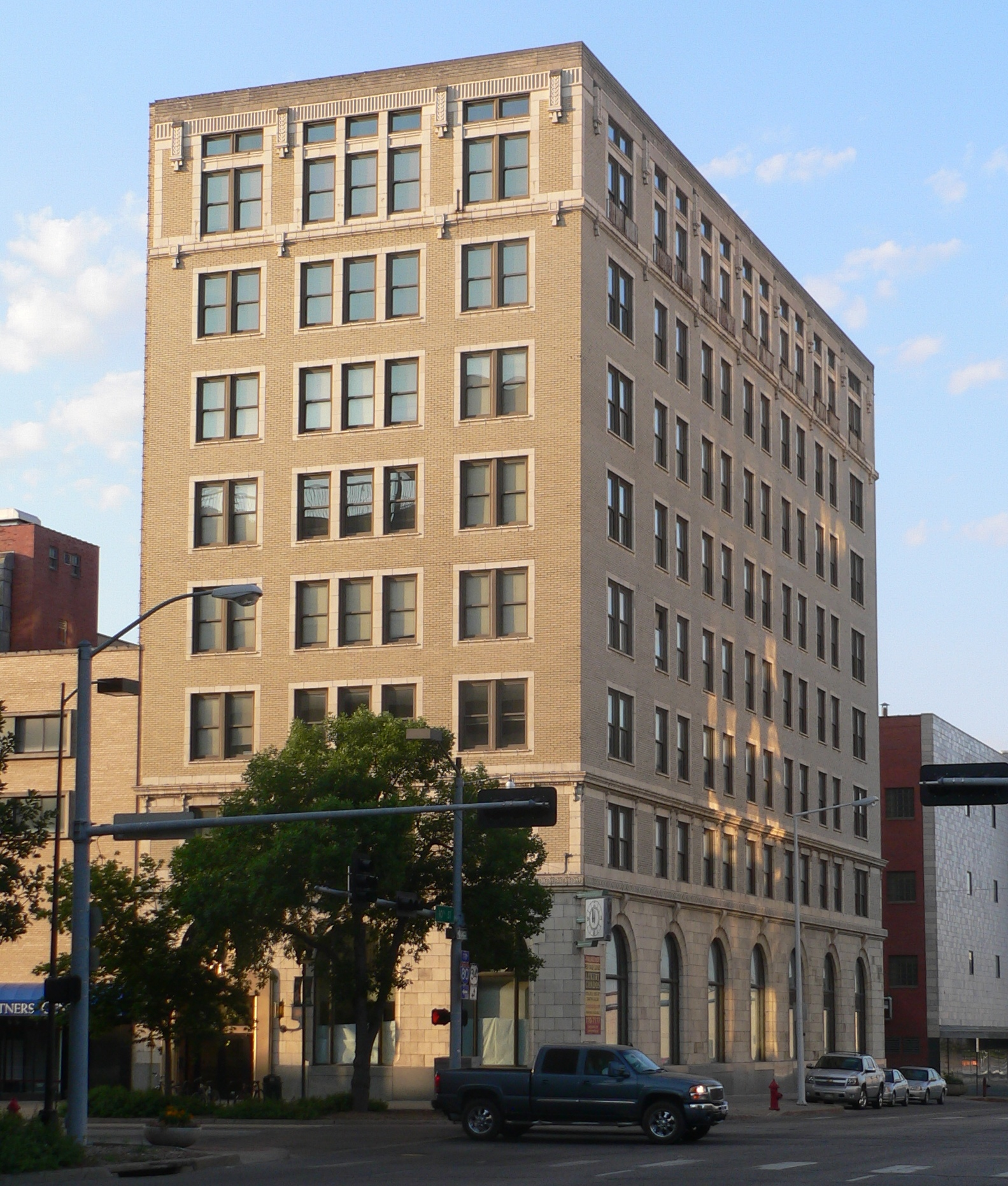 First National Bank building, located at 1001 O Street (southeast corner of 10th and O) in Lincoln, Nebraska; seen from the northwest. The pickup at the bottom of the photo is westbound on O.